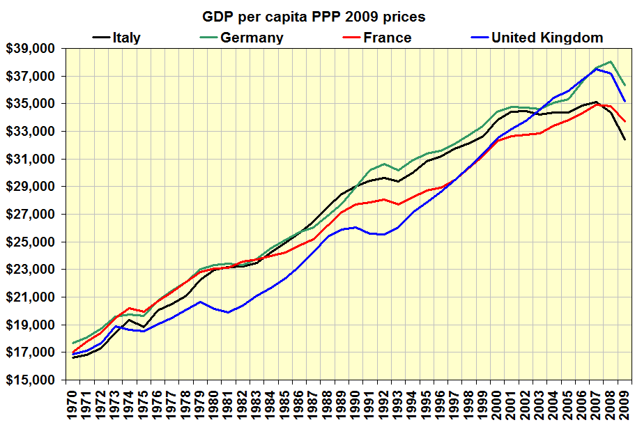 GDP per capita big four Western Europe